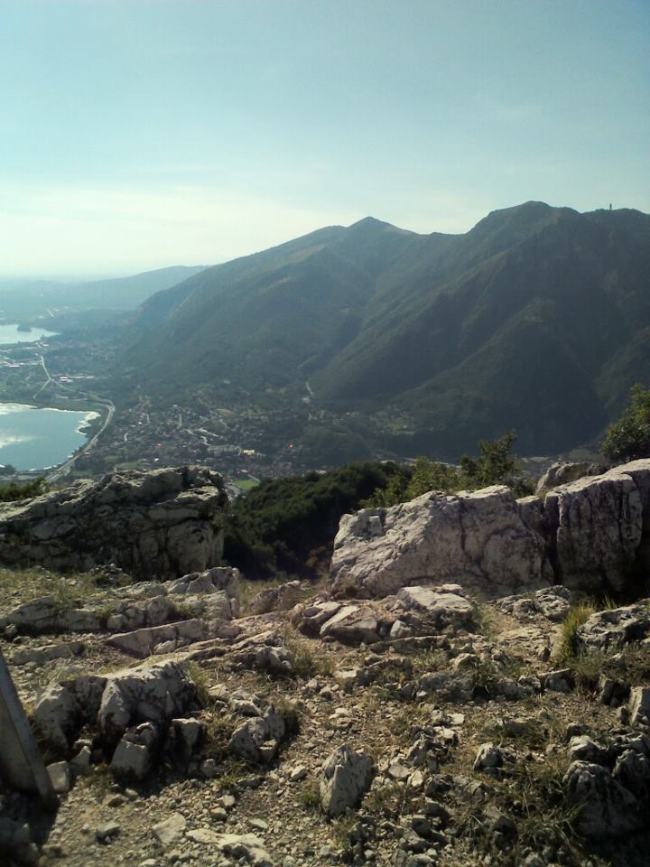 The view ontop of Monte Barro, a mountain in Lombardy Italy.